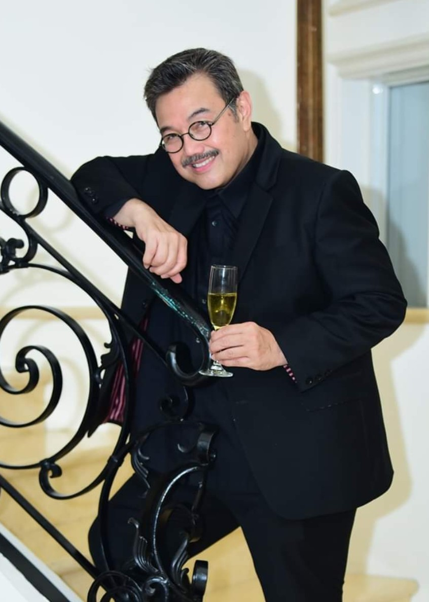 Ito Curata in his house during his 60th Birthday Celebration.